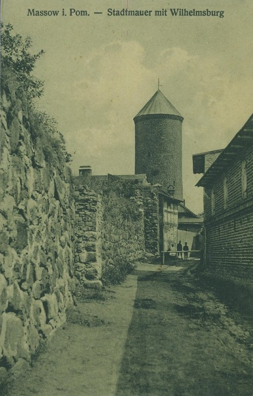 Massow in Pommern